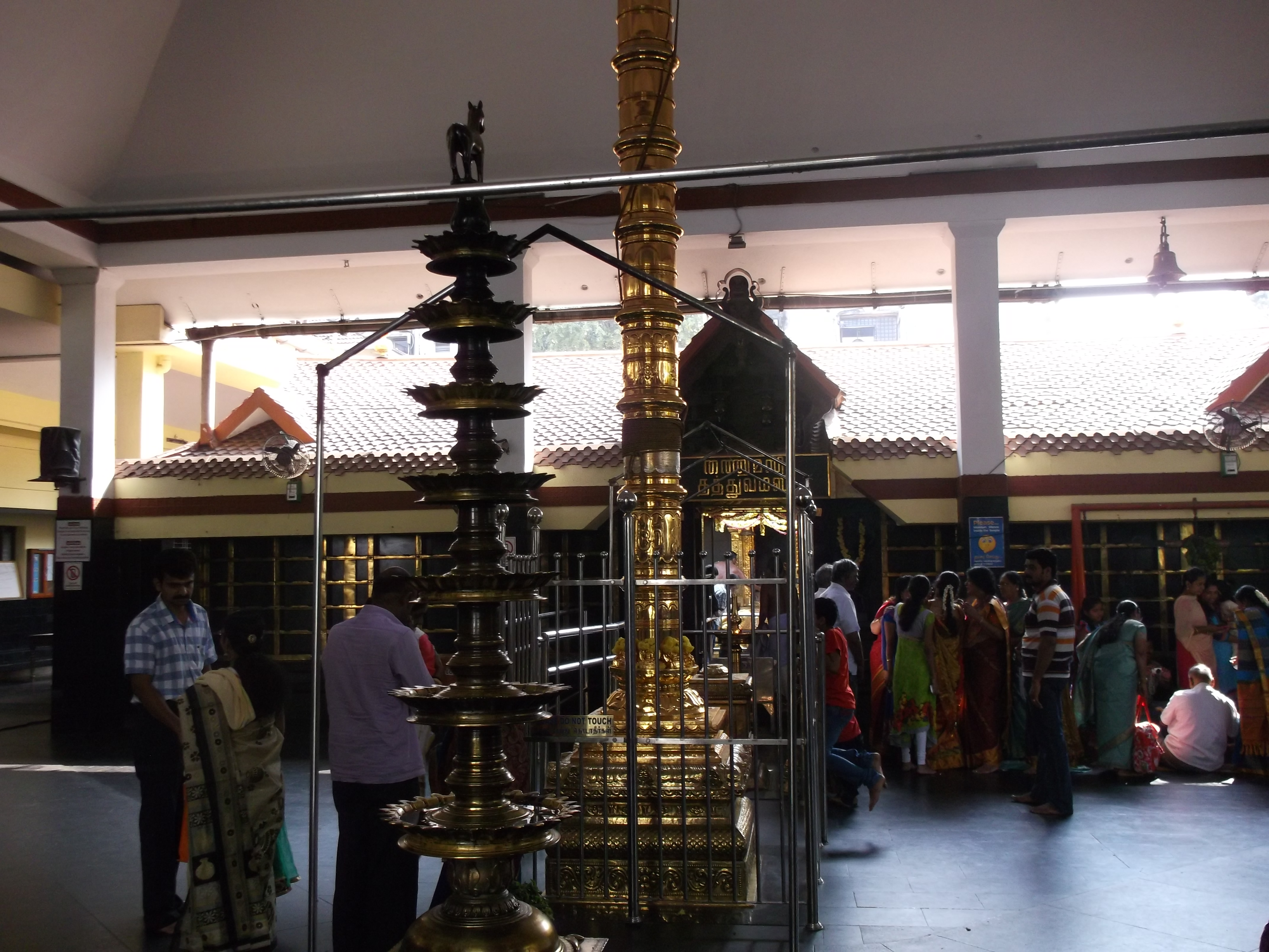 Towards the sanctum sanctorum of the Anna Nagar Ayyappan Koil, from the corridor near the main entrance, taken on 22 February 2015 at around 9:30 am.